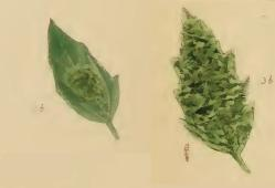 Stainton’s Natural History of the Tineina (1855–1873): Chrysoesthia drurella mined leaves of Chenopodium (3b, 3b*)